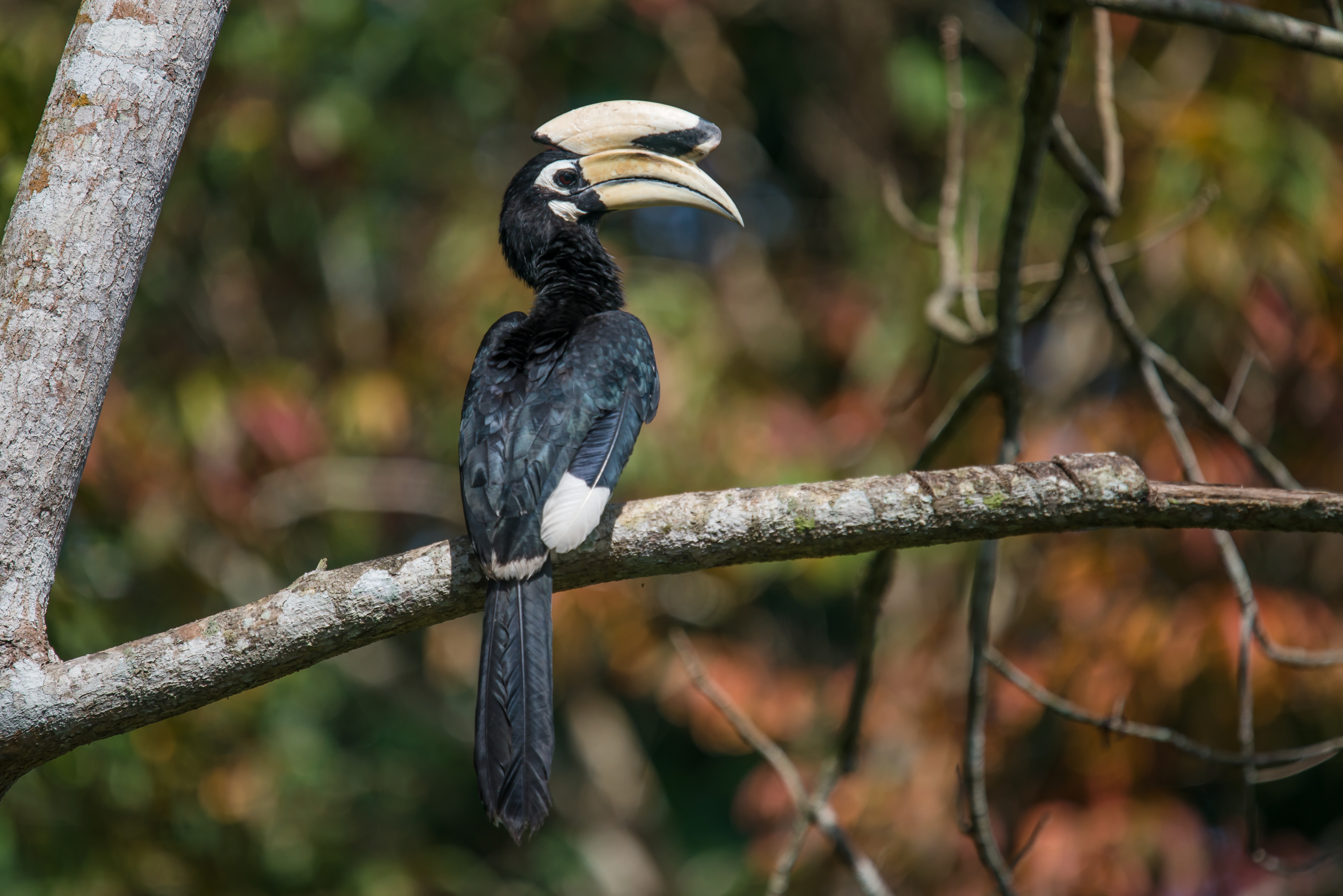 This photo is published under Creative Commons Attribution-Share-Alike Licence, means you are free to use this photo with attribution under same licence. For credits, please use following; Owner: Thai National Parks Link